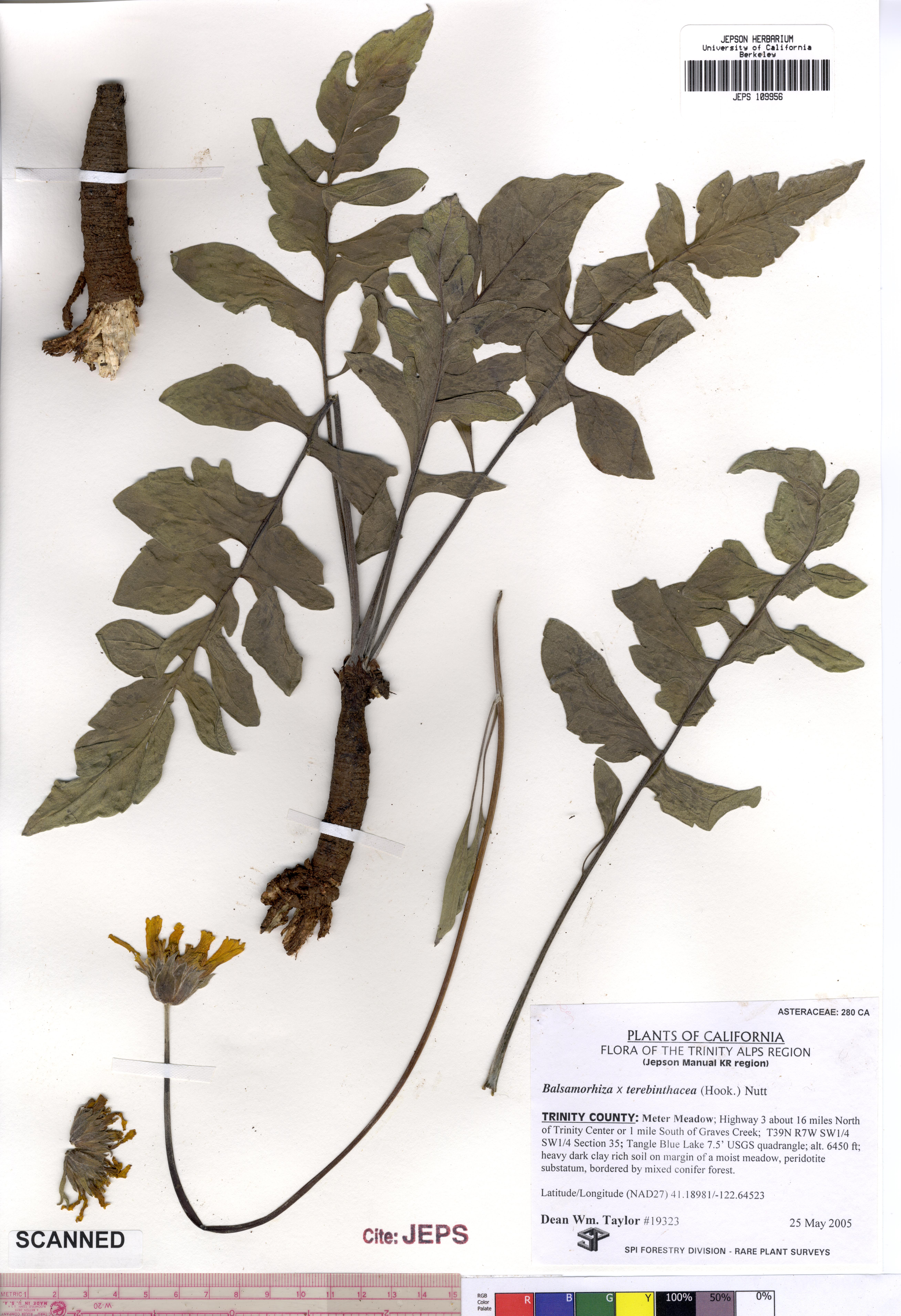 Balsamorhiza ×terebinthacea JEPS109956